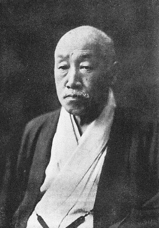 Mamoru Funakoshi